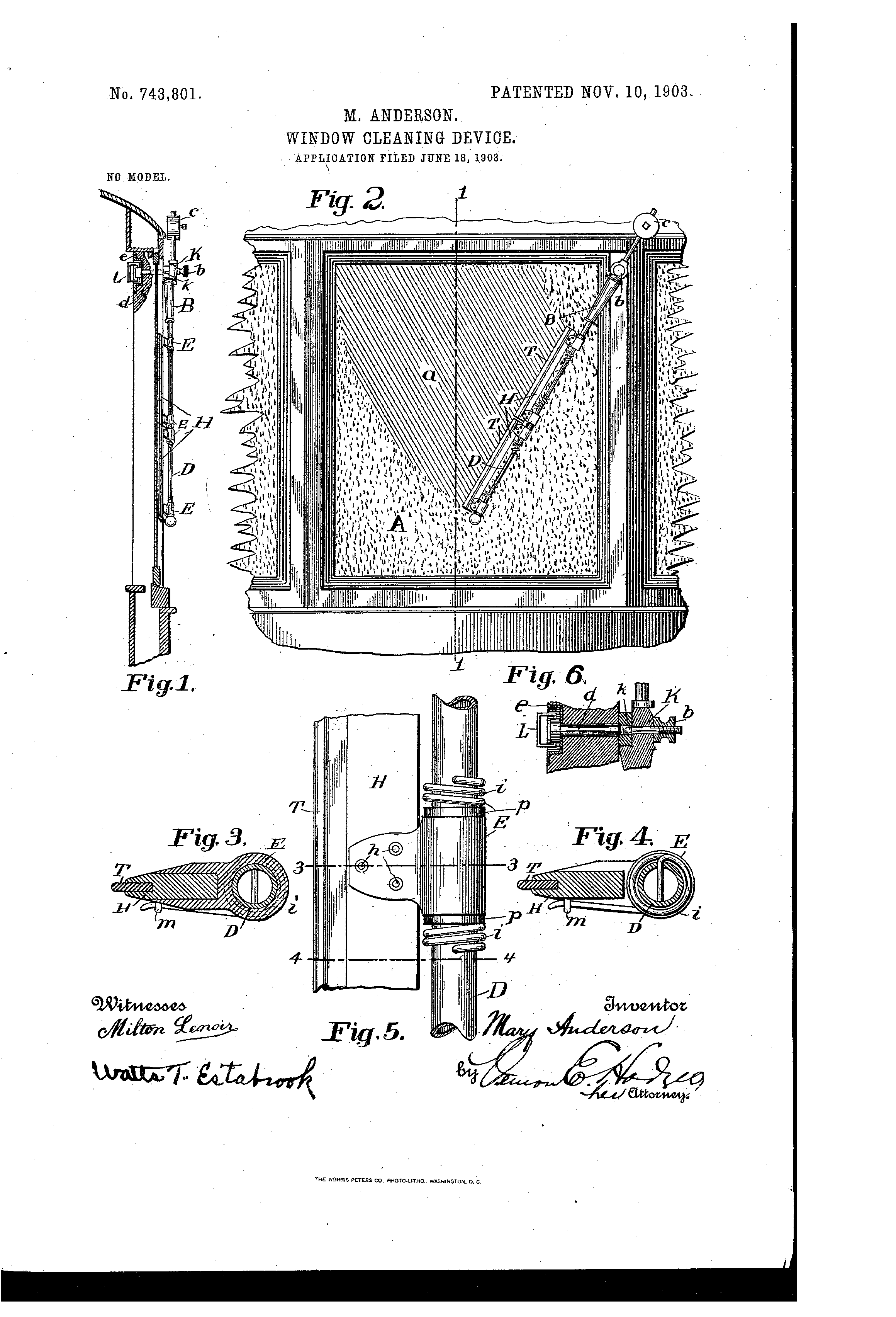 Diagram of Andersons 1903 window cleaning device.